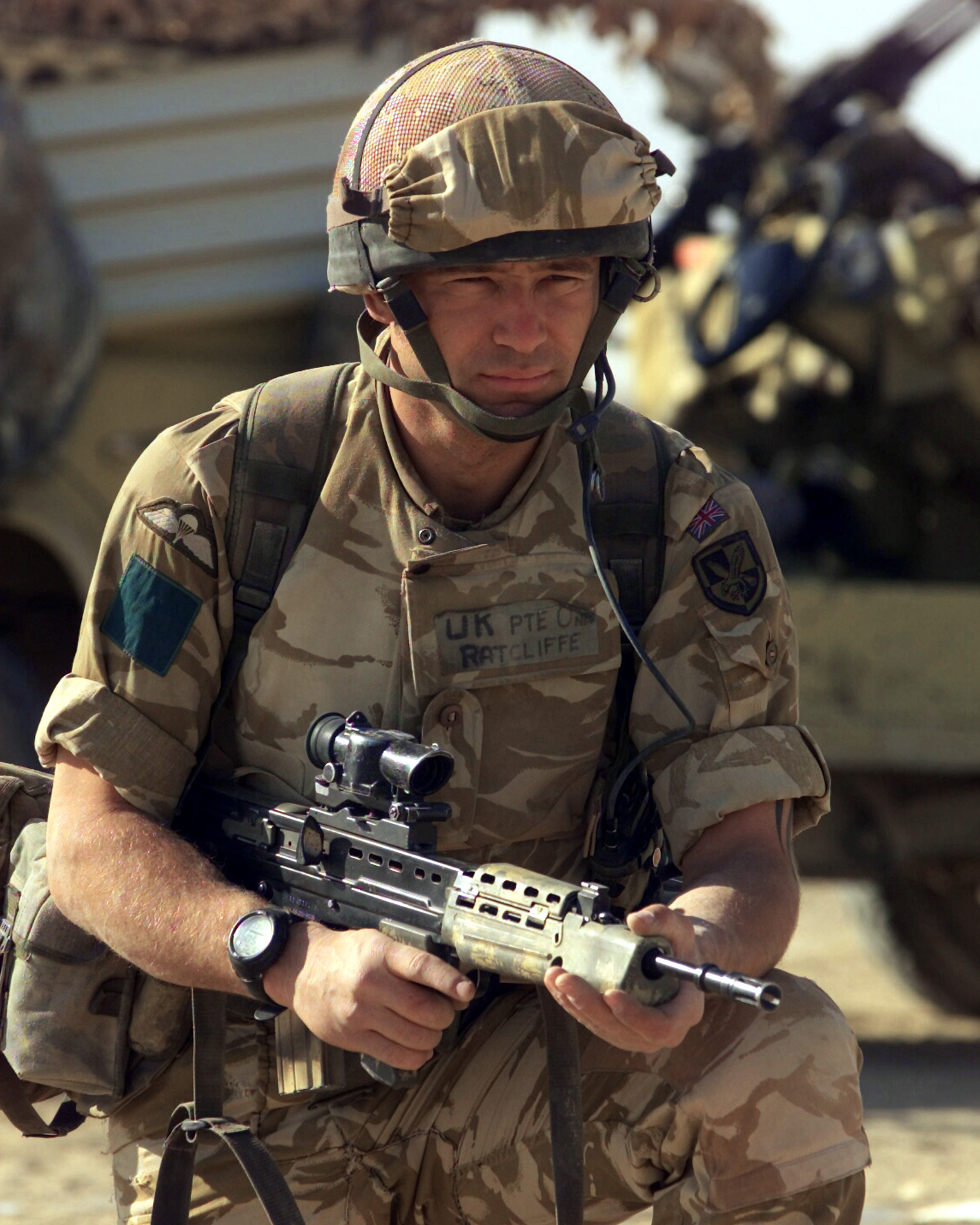 Armed with an L85A2 rifle, a British Army soldier from the 3rd Battalion, The Parachute Regiment, kneels while demonstrating a vehicle check point system at landing strip Viper, in support of Operation IRAQI FREEDOM.